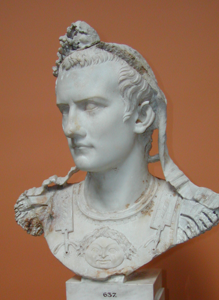 Emperor Caligula, Ny Carlsberg Glyptotek.